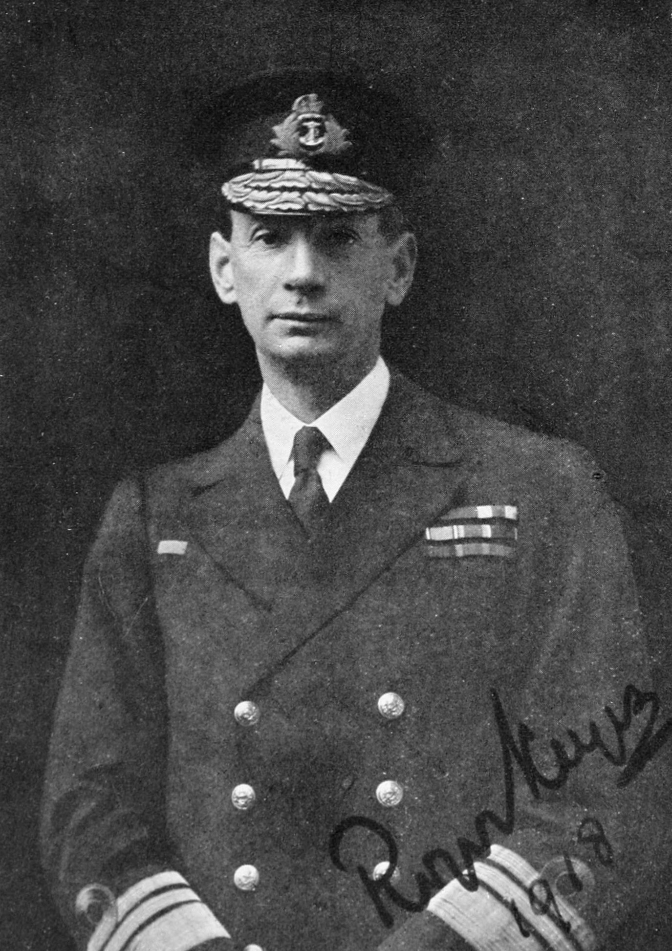 Portrait photo of Sir Roger John Brownlow Keyes, 1st Baron Keyes (1872-1945).